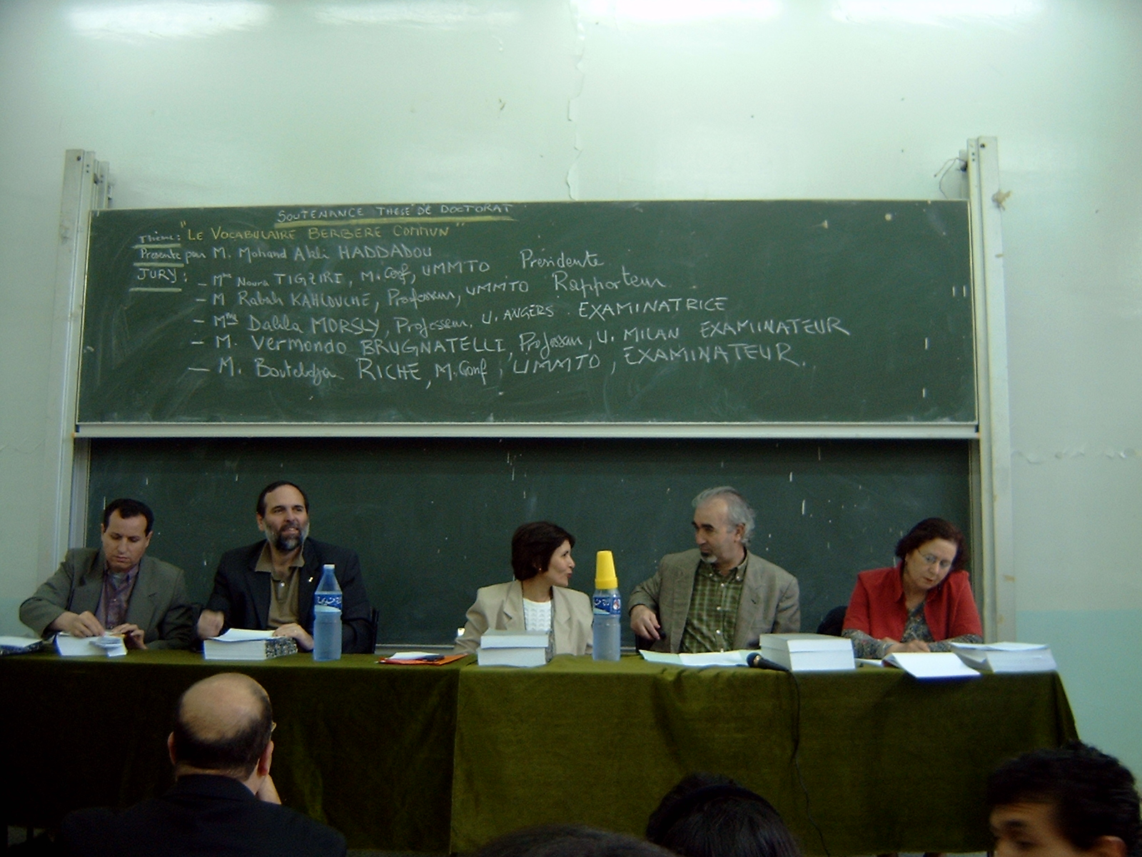 The first Algerian Ph.D. Thesis in Berber Linguistics, Tizi Ouzou University, 28 May 2003